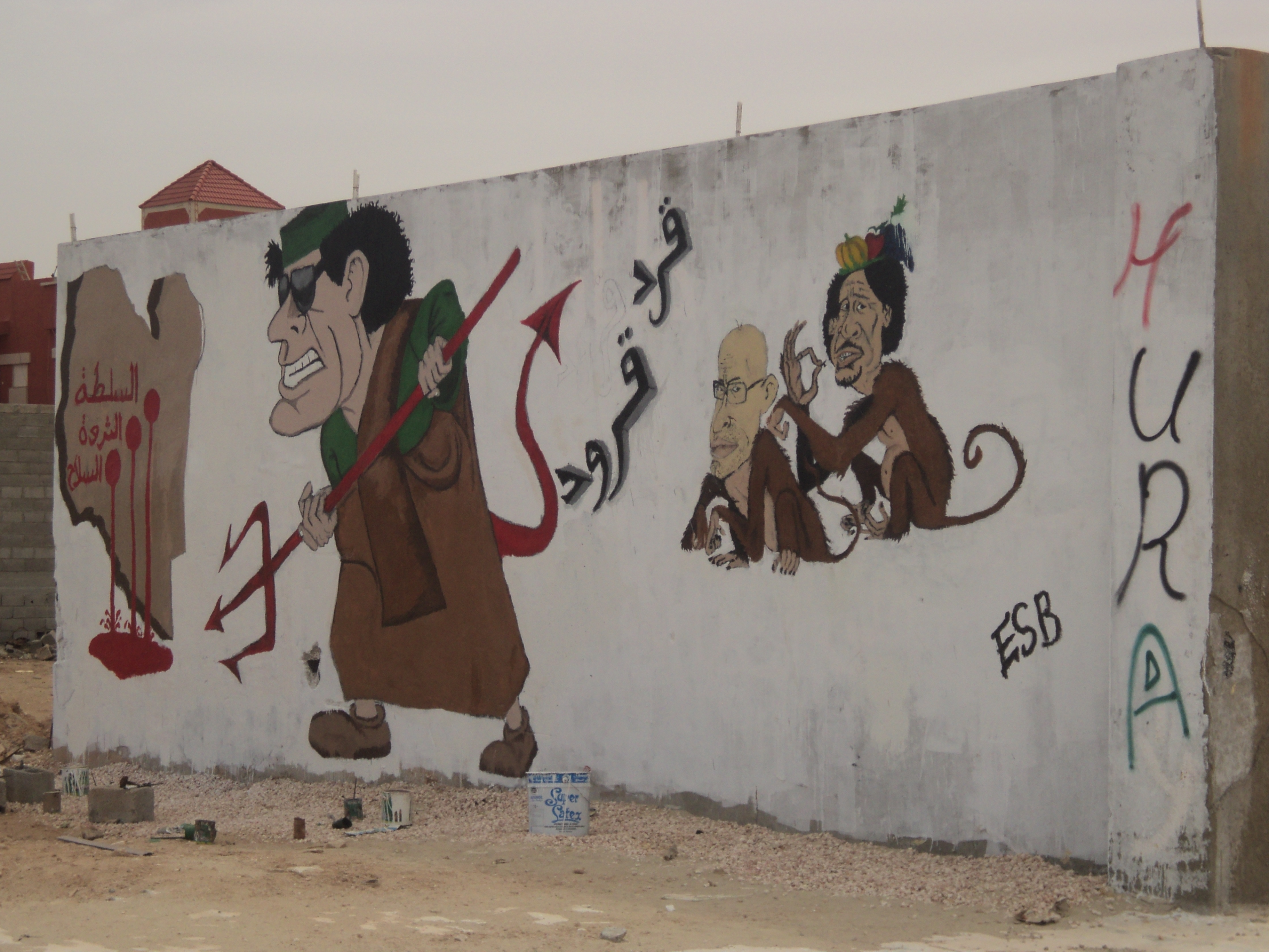 Caricatures of Gadafi in Taballino neighbourhood, Benghazi. Muammar Gadafi is "Monkey of Monkeys" with his son Saif al Islam. Muammar Gadafi's insistence to rule and say "Authority, Wealth, and Arms [in hands of people]" made Libya bleeding!